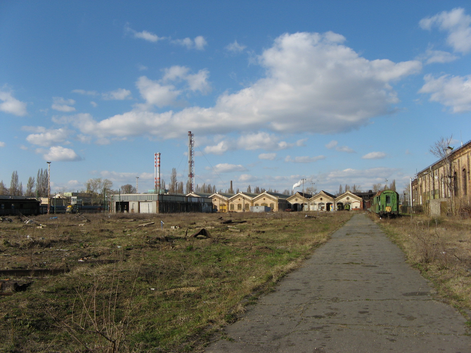 Budapest, Istvántelki Főműhely